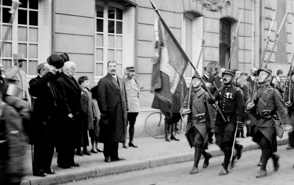 Eleftherios Venizelos in Paris